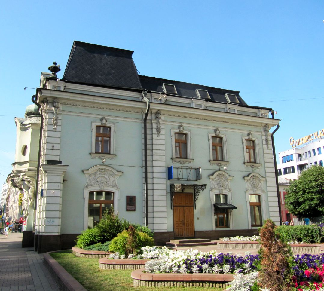 Matvey Sidorovich Kuznetsov - Porcelain King of Russia, lived in this house in 1874 - 1911 (Moscow, Prospekt Mira, 41). Architects: I.S. Kuznetsov, F.O.Schechtel, V.G. Ivanov, sculptor S.T. Konenkov.